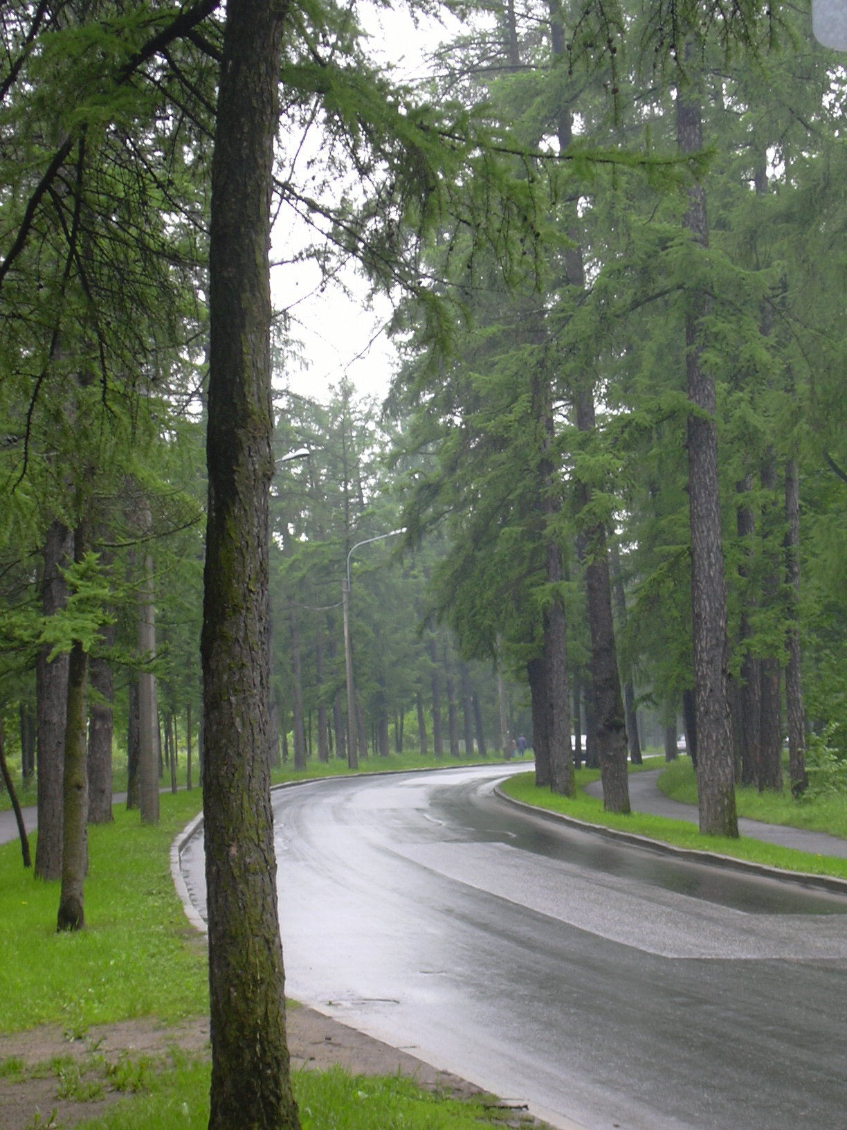 Sofiysky boulevard. Tsarskoye Selo. St.Petersburg.